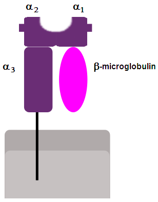 Summary Schematic representation of MHC class I molecule, consisting of three α-domains and one β2-microglobulin molecule. The peptide-binding groove is situated between domains α1 and α2.